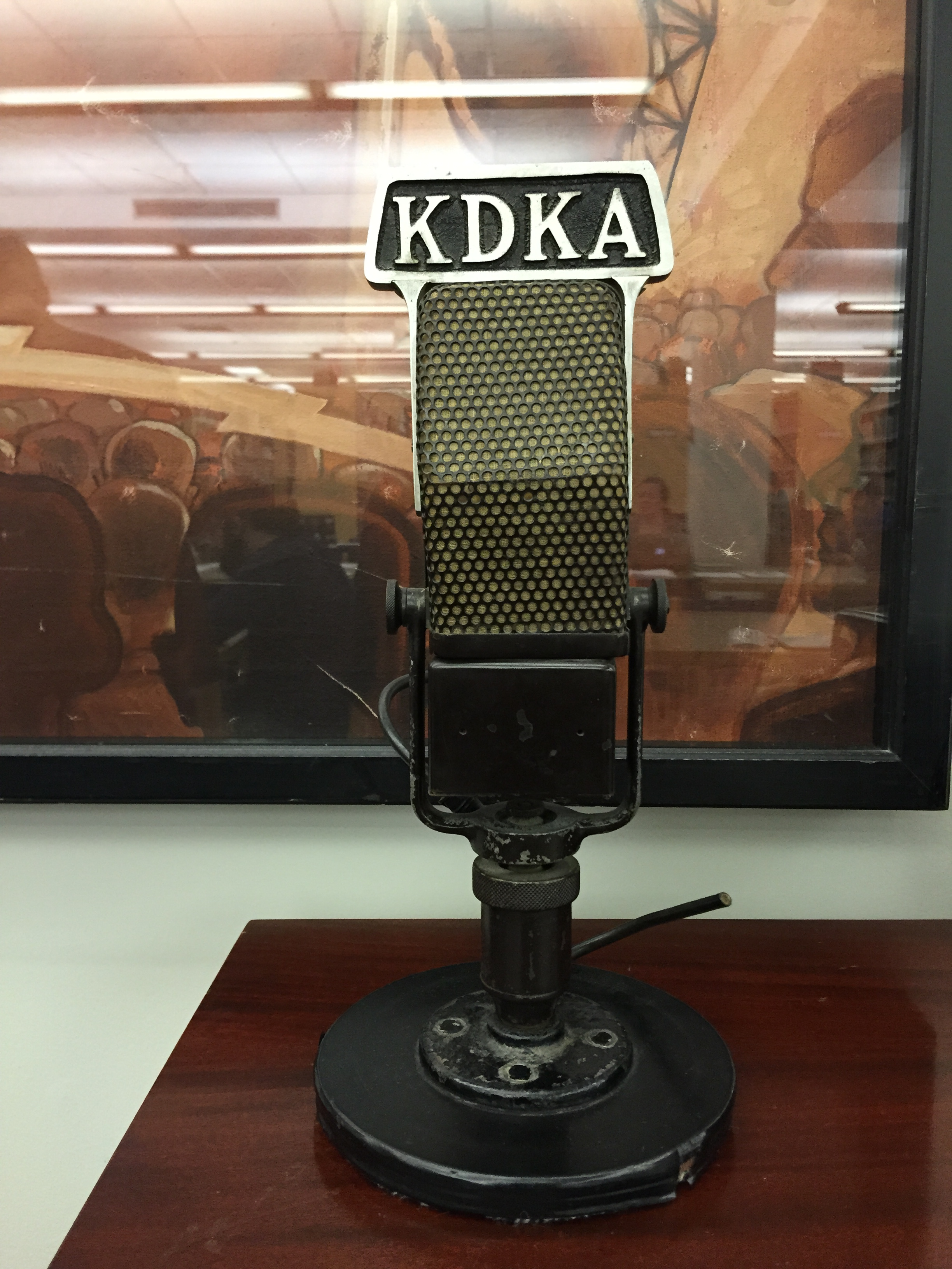 KDKA microphone on display at the Hornbake Library, University of Maryland.